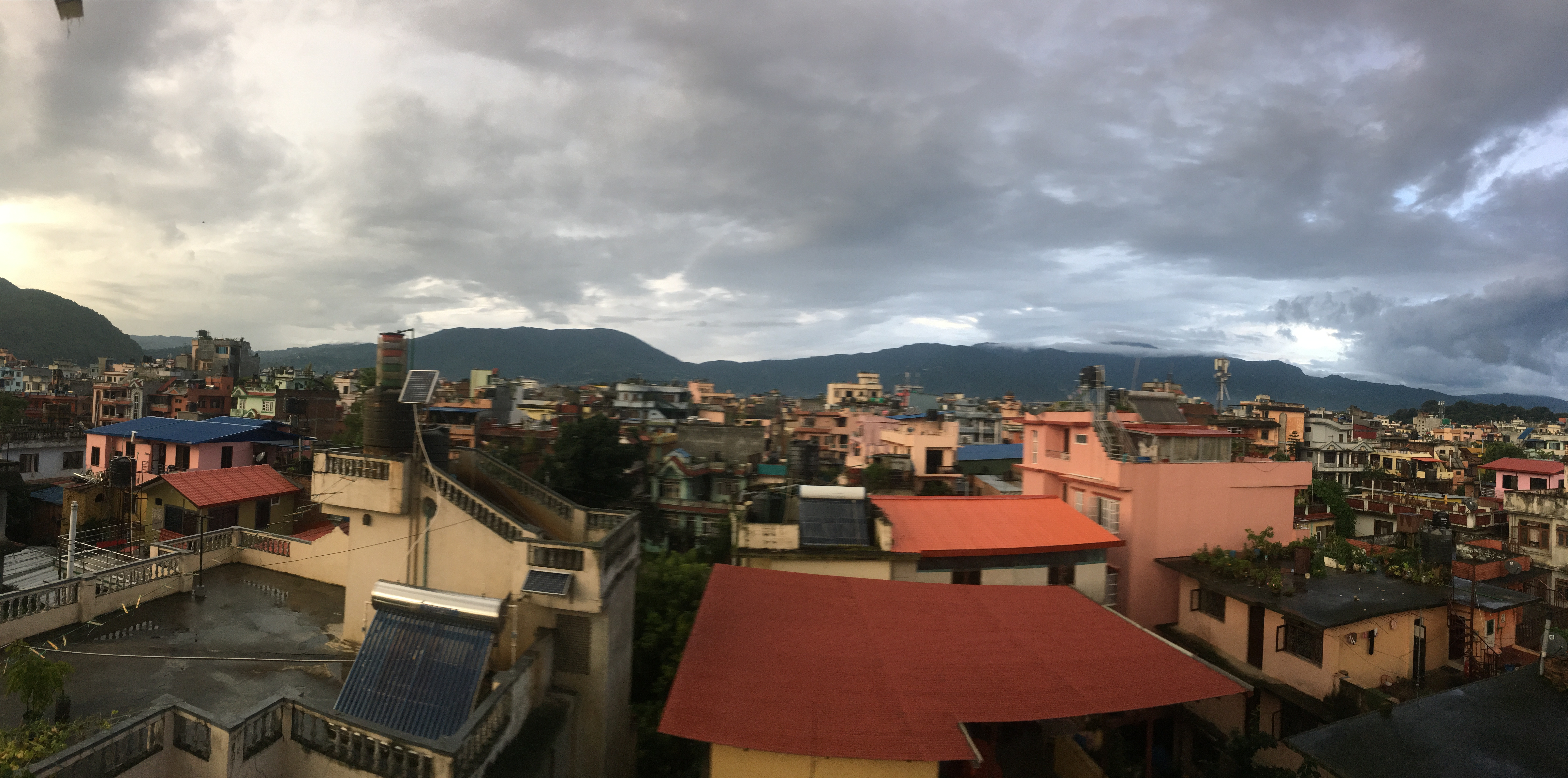 pano of samakhushi